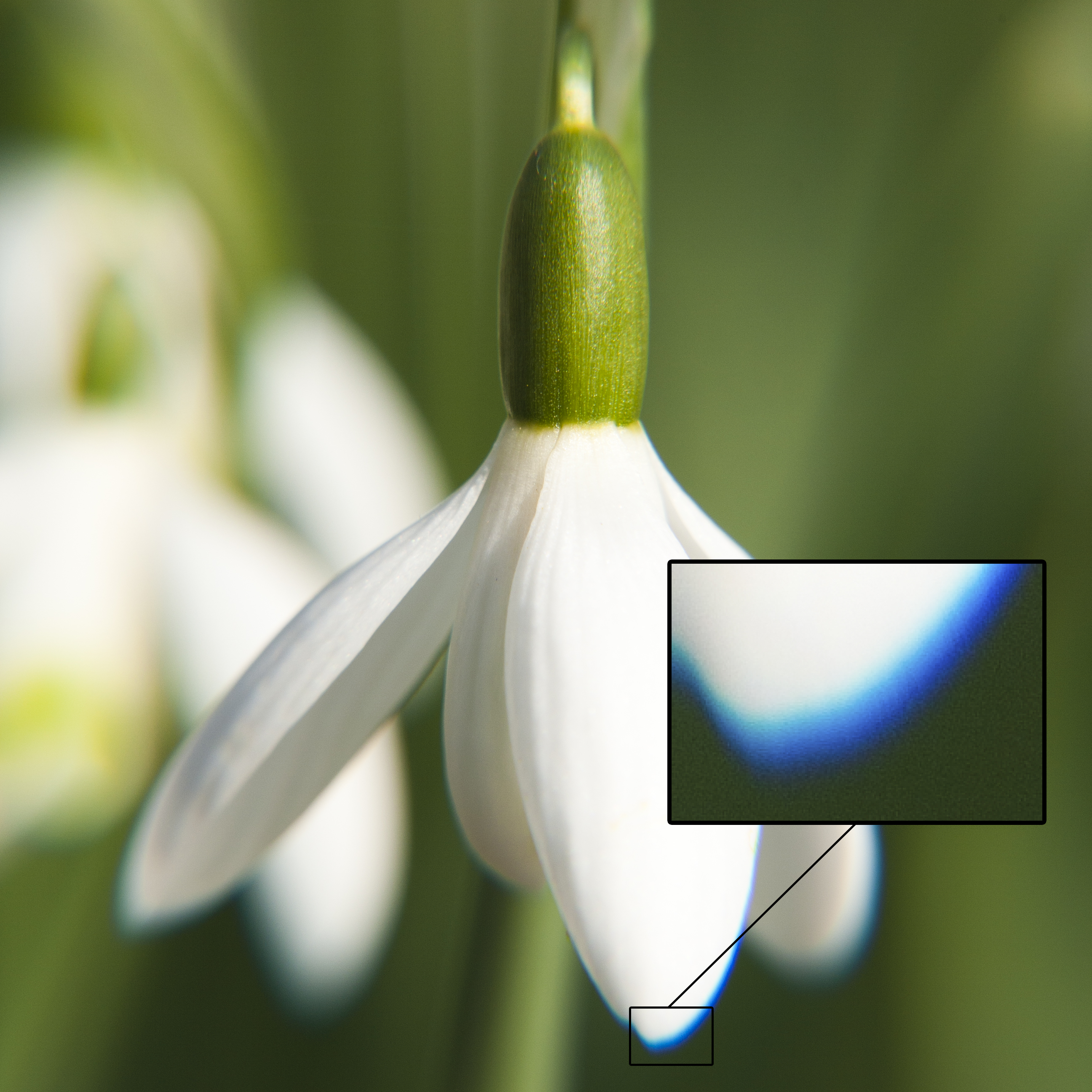 Chromatic abberation with detail